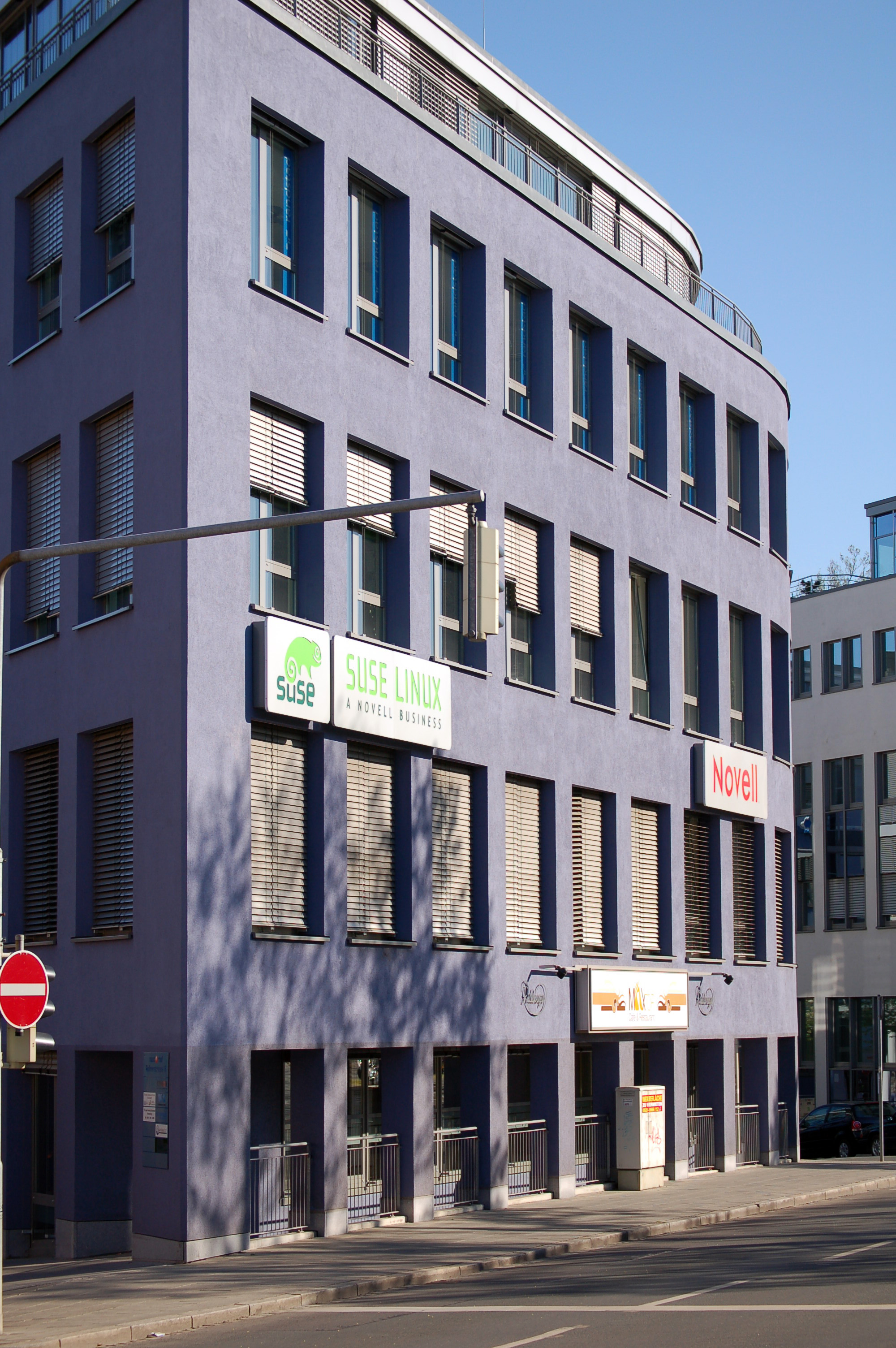 S.u.S.E. Linux GmbH headquarters in Nuremberg. The presence of parent company Novell is also indicated on the building.